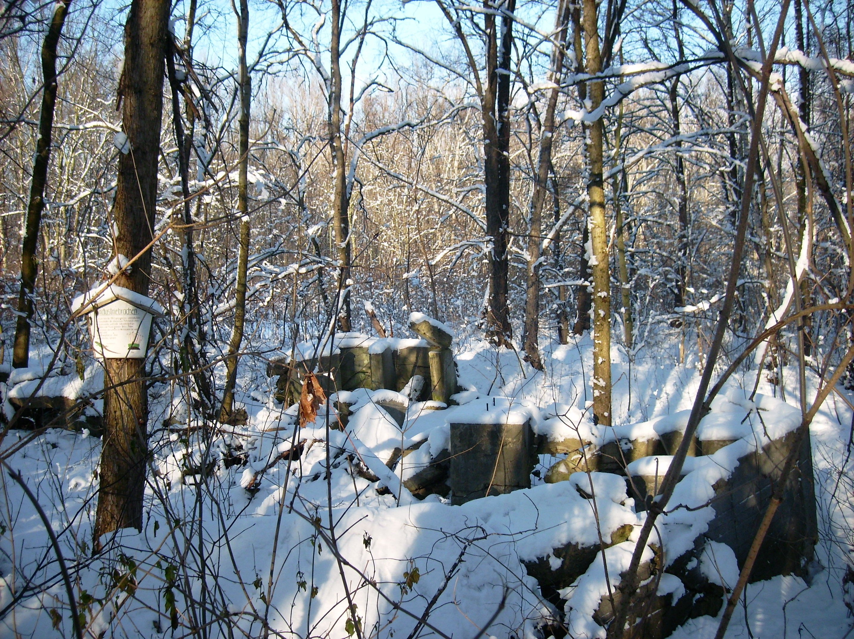 Ruins of the Mitteldeutsche Motorenwerke in a forest area to the west of Taucha (Nordsachsen district, Saxony)